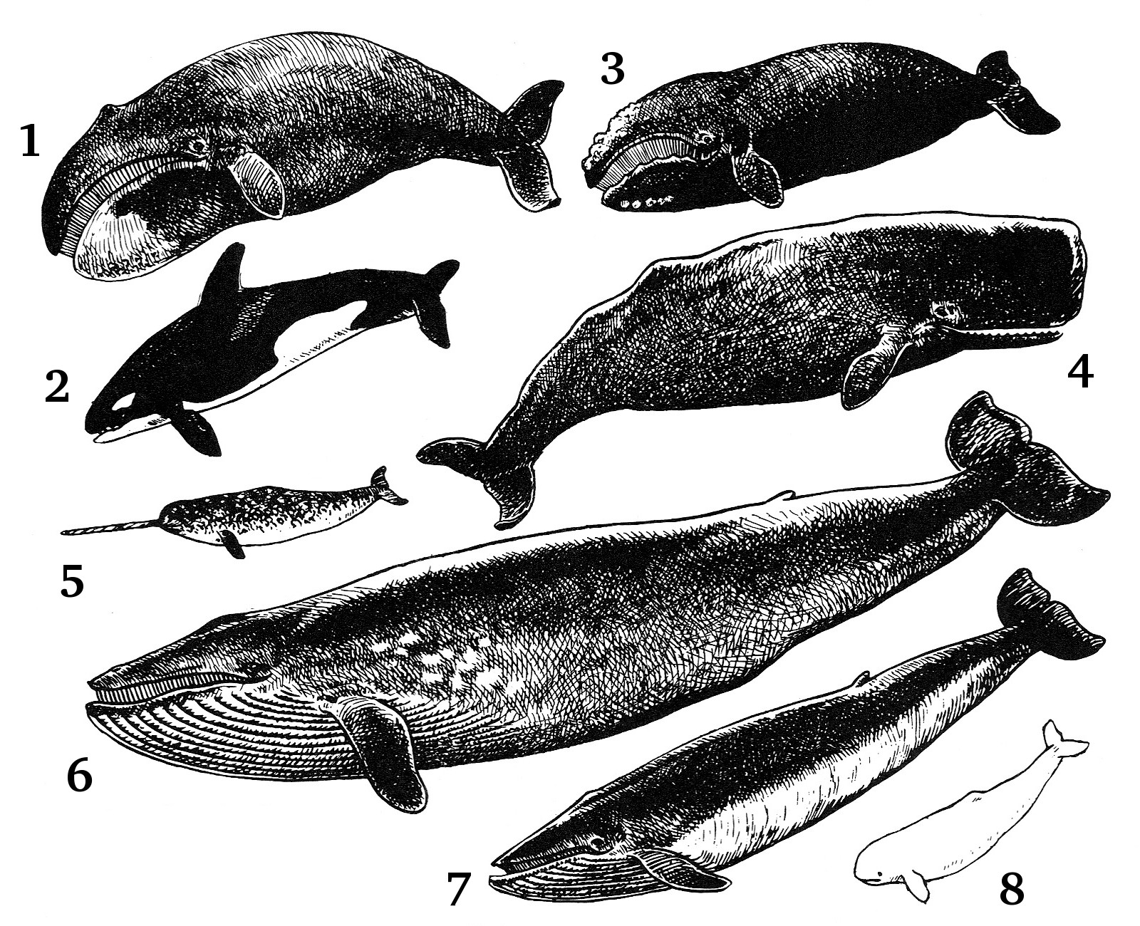 1- Bowhead Whale; 2- Killer Whale; 3- Right Whale; 4- Sperm Whale; 5- Narwhal; 6- Blue Whale; 7- Rorqual; 8- Beluga - White Whale